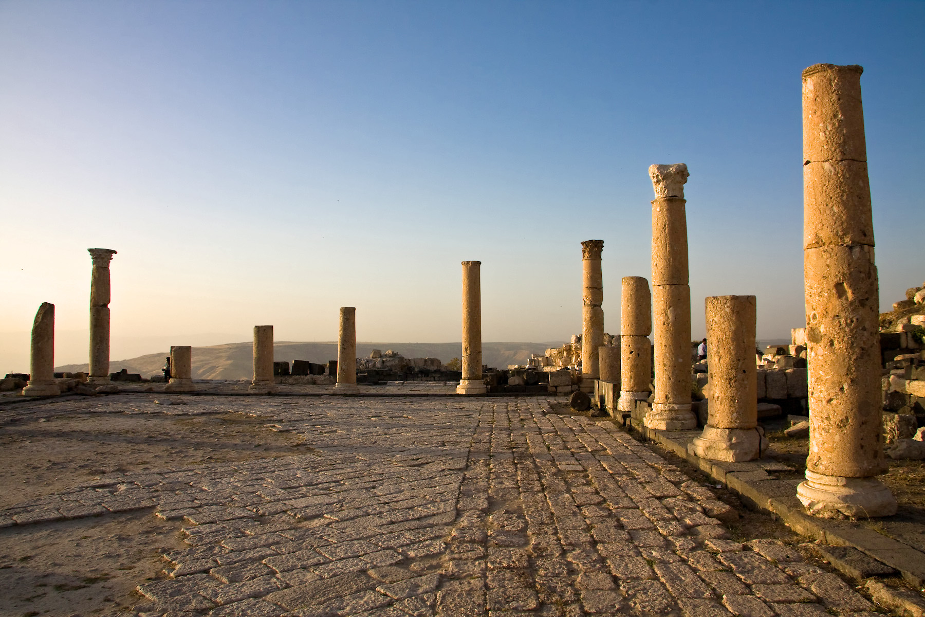 Byzantine Church terrace at Umm Qais, Jordan.